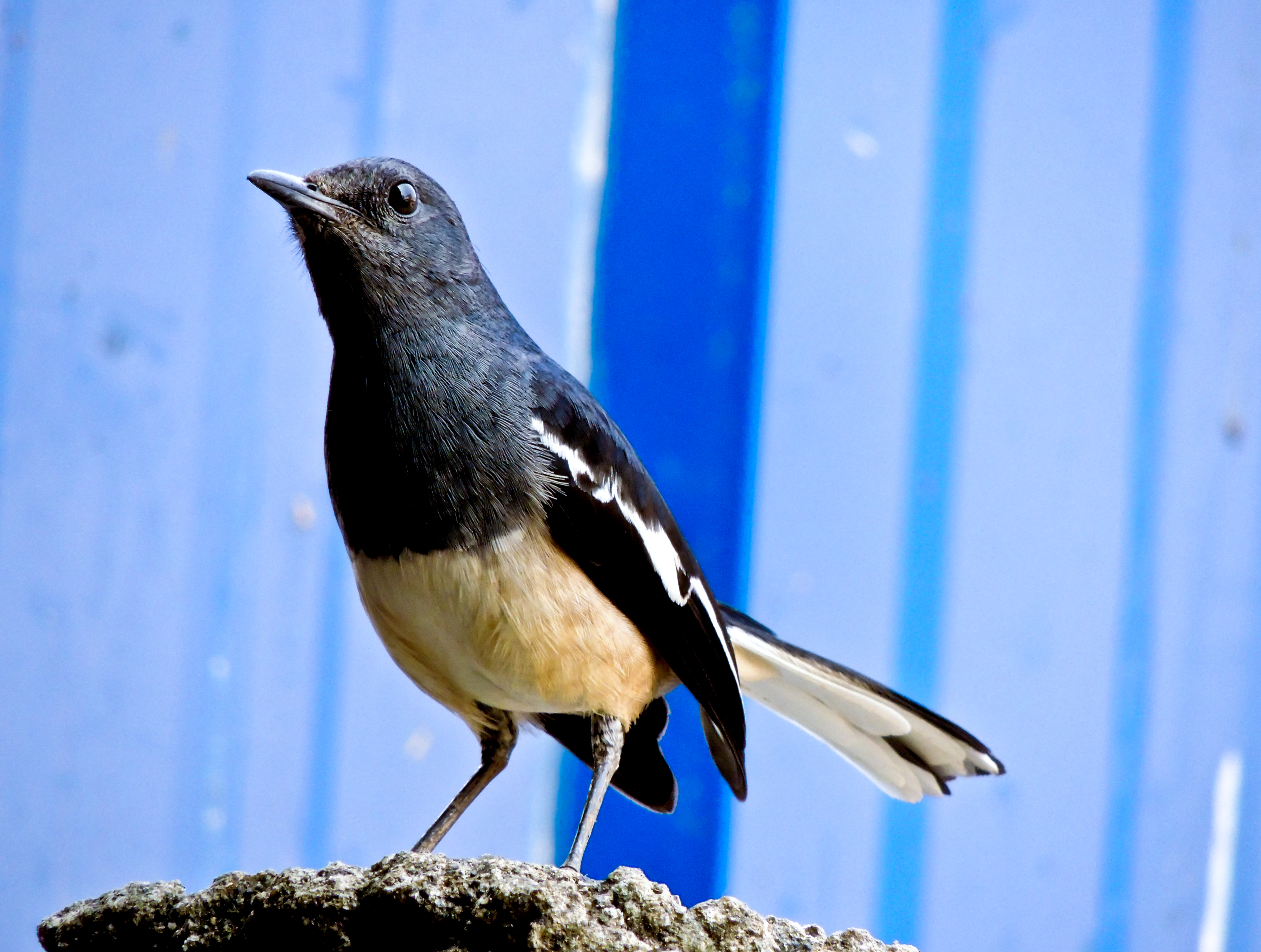 The Oriental Magpie-Robin (Copsychus saularis) is a small passerine bird that was formerly classed as a member of the thrush family Turdidae, but now considered an Old World flycatcher. They are distinctive black and white birds with a long tail that is held upright as they forage on the ground or perch conspicuously. Distributed in most of the Indian Subcontinent and parts of Southeast Asia, they are common birds in urban gardens as well as forests. They are particularly well known for their songs and were once popular as cagebirds.